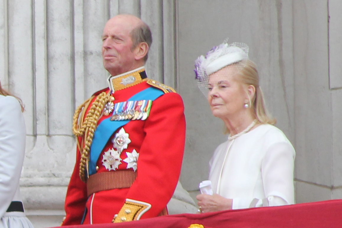 The Duke and Duchess of Kent on the balcony of Buckingham Palace, June 2013